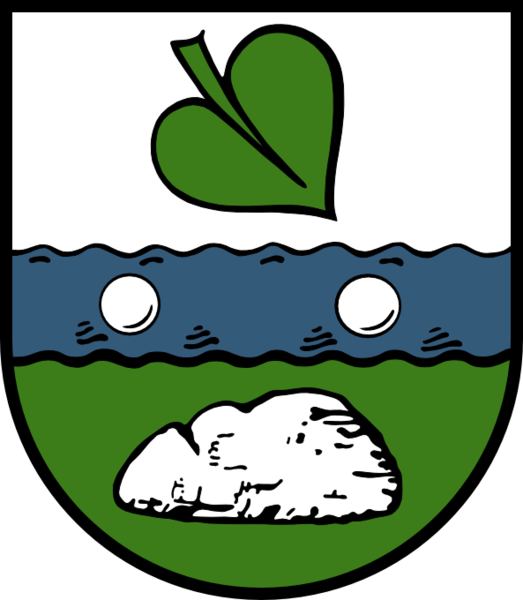 Coat of arms of the Town Schwienau